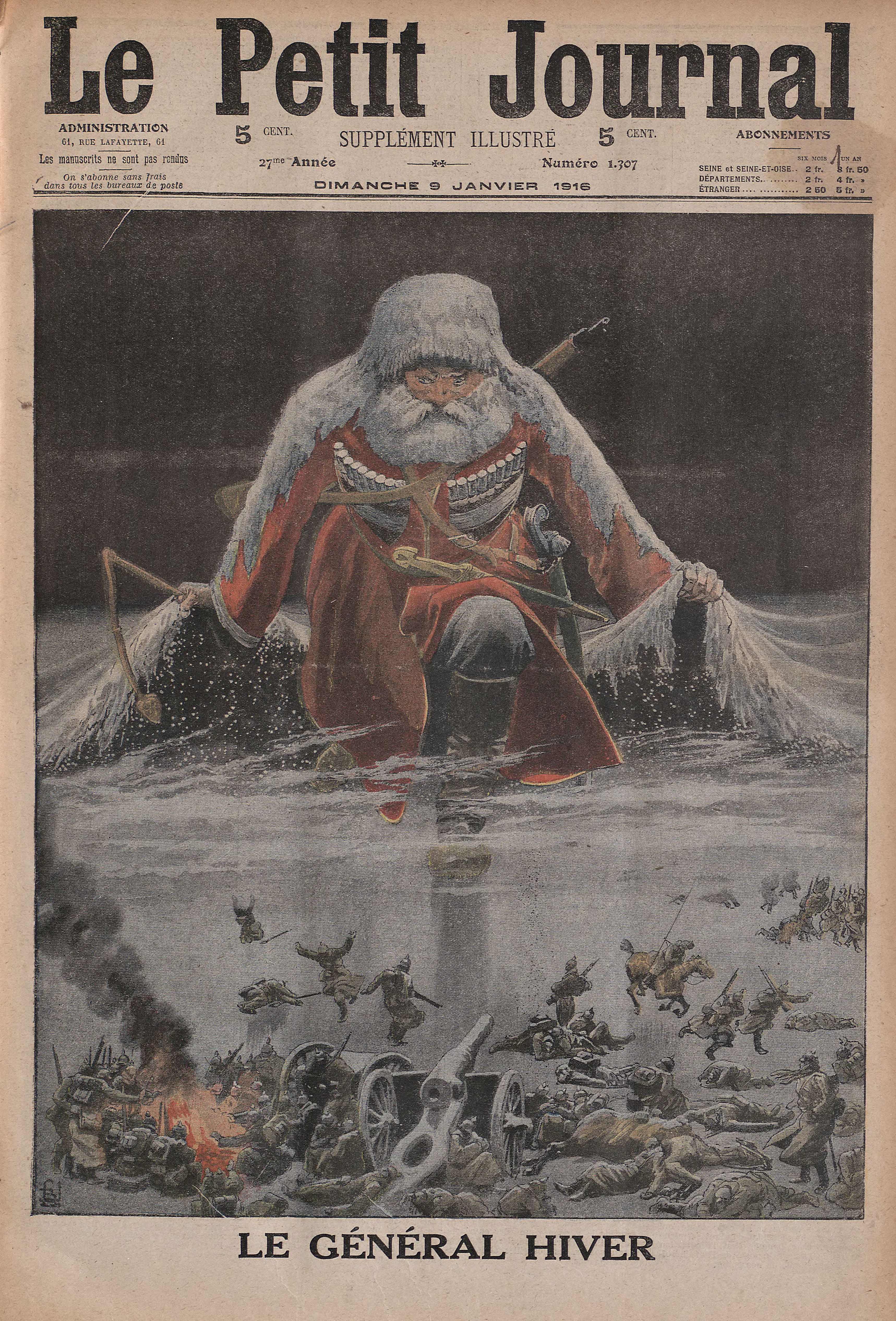 Illustration of "General Winter" on the Eastern Front of World War I.